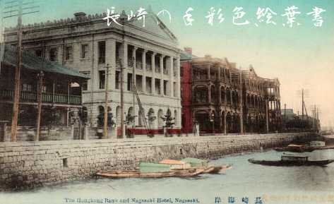 Japanese hand tinted postcard view of the Hong Kong Bank and the Nagasaki Hotel on the Nagasaki Bund